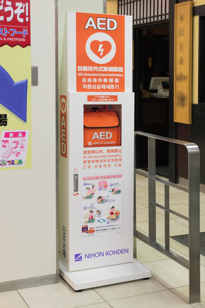 An Automated External Defibrillator in Shin-Sugita Station, made by Nihon Kohden.